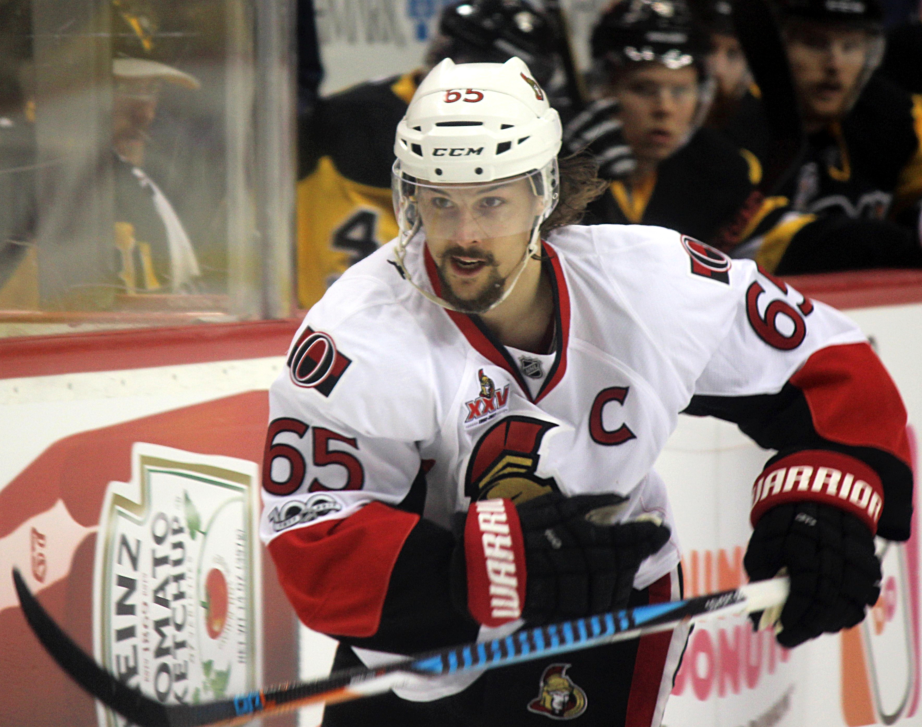 Ottawa Senators captain Erik Karlsson during a playoff game against the Pittsburgh Penguins, May 13, 2017, at PPG Paints Arena in Pittsburgh, PA.